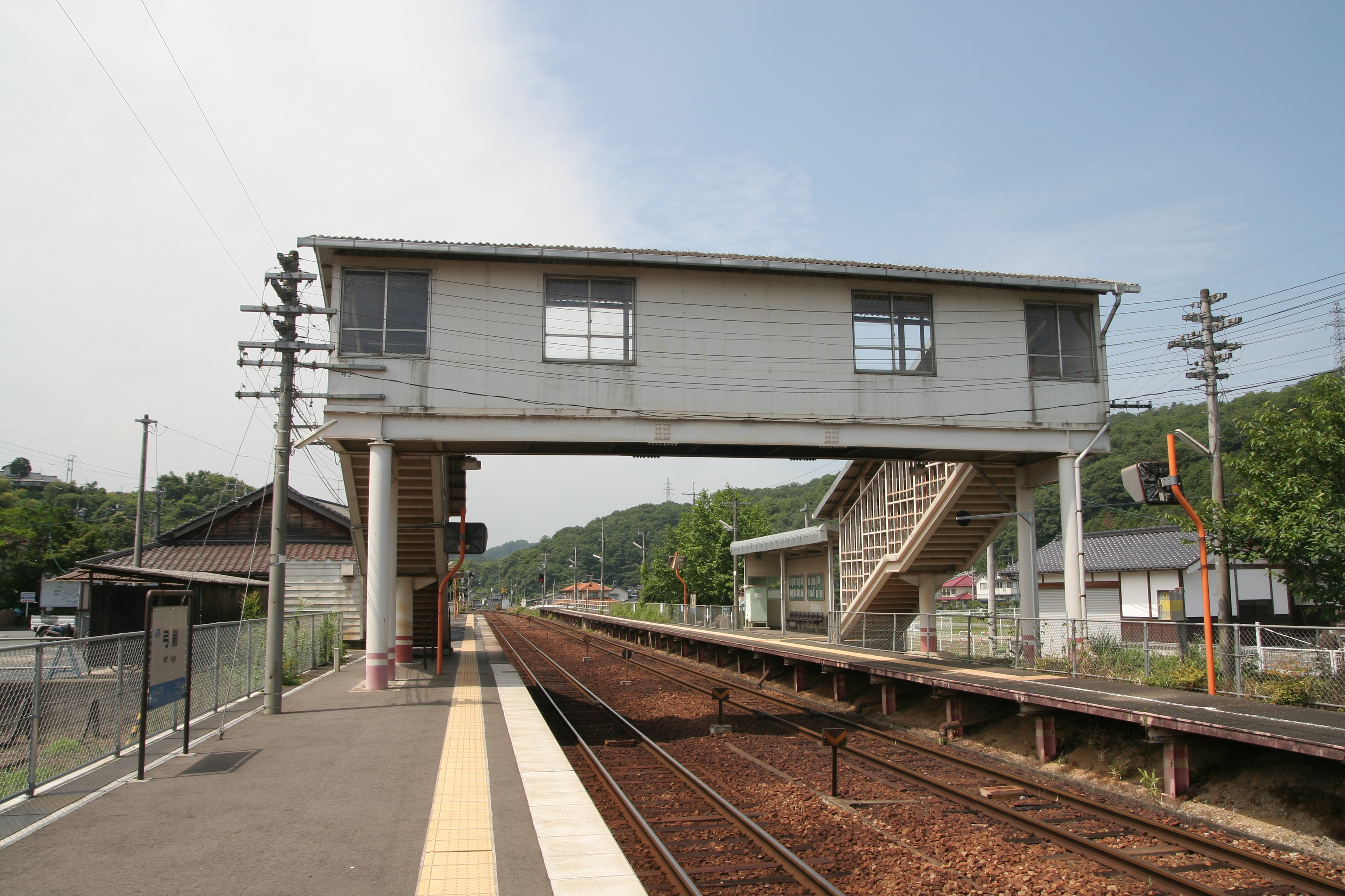 West Japan Railway Company Tsuyama Line Yuge Station enclosure